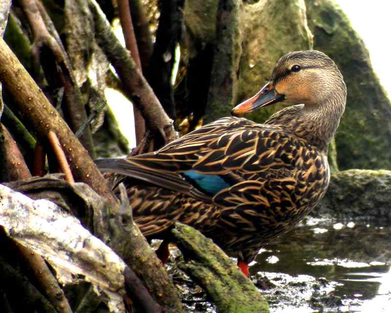 Mottled Duck (Anas fulvigula). Something about this duck told me it might not be a Mallard, so I took some pains to try to get a decent shot, despite the lighting. Viewing the photo I questioned whether it might be Mottled Duck, a life bird for us west-coasters. Sent photo to some of my Birds-Pix friends, who in turn sent it to some experts, and the work came back "Mottled Duck, for sure". Much like the Mallard hen, but note the pale crown and definite black spot at the gape, as well as the buffy warm cheek.